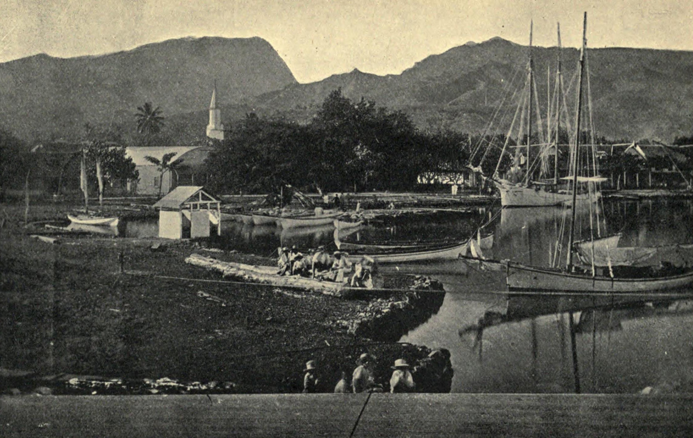 Port of Papeete, Tahiti.